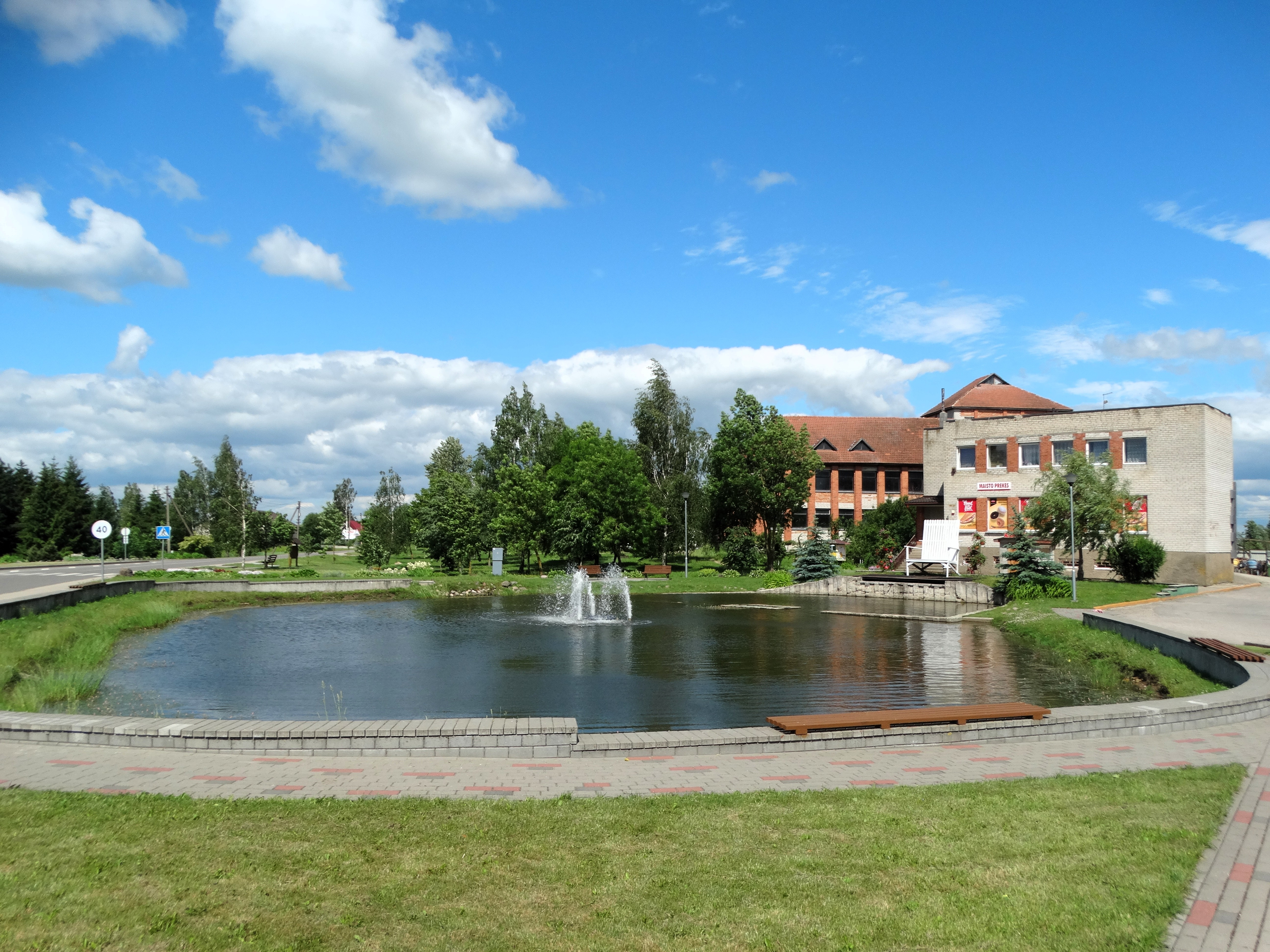 Bukonys, Jonava district, Lithuania